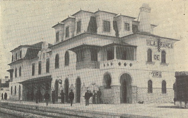 Vila Franca de Xira Railway Station, on the Norte Railway, in Portugal. This image was published on the Gazeta dos Caminhos de Ferro magazine no. 1254, of the 16th March 1940, and scanned by the Hemeroteca Municipal de Lisboa.